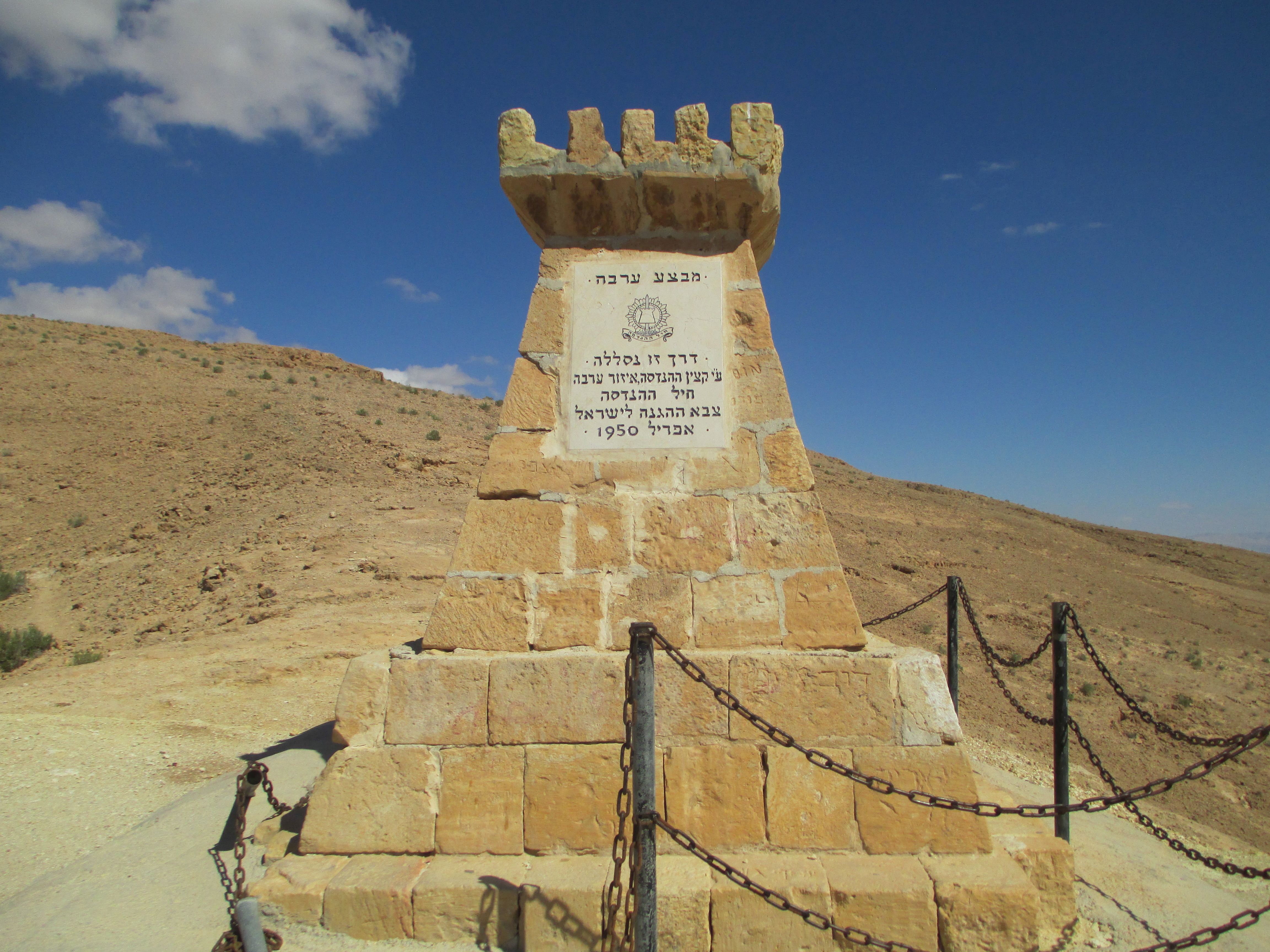 Military engineering monument in Ma'ale Akrabim